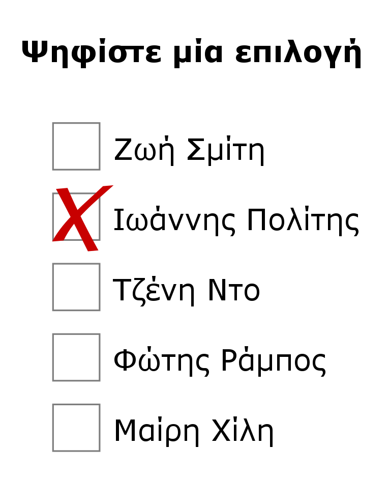 Greek translation of File:Plurality ballot.svg